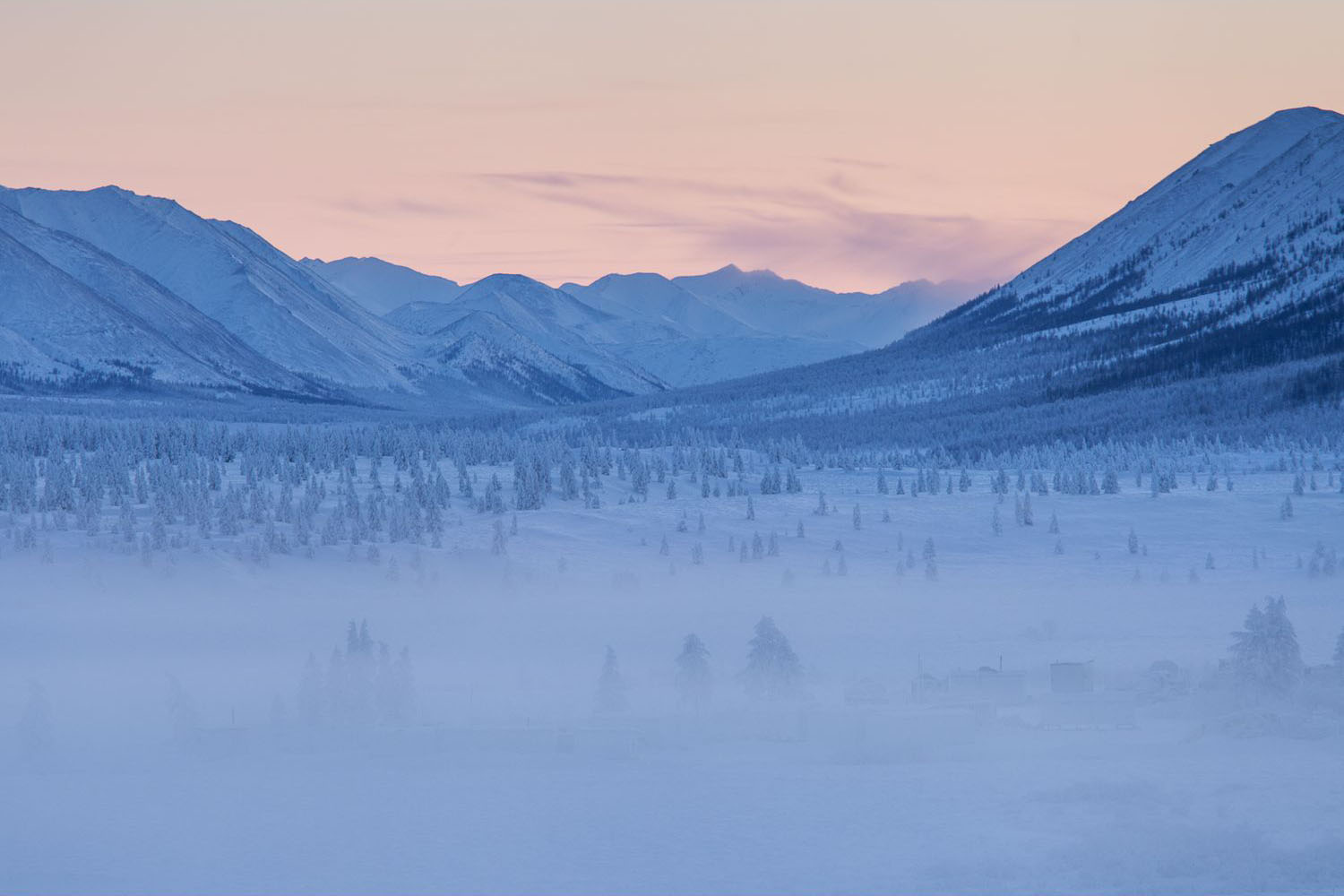 Near Oymyakon in Yakutia, Russia.